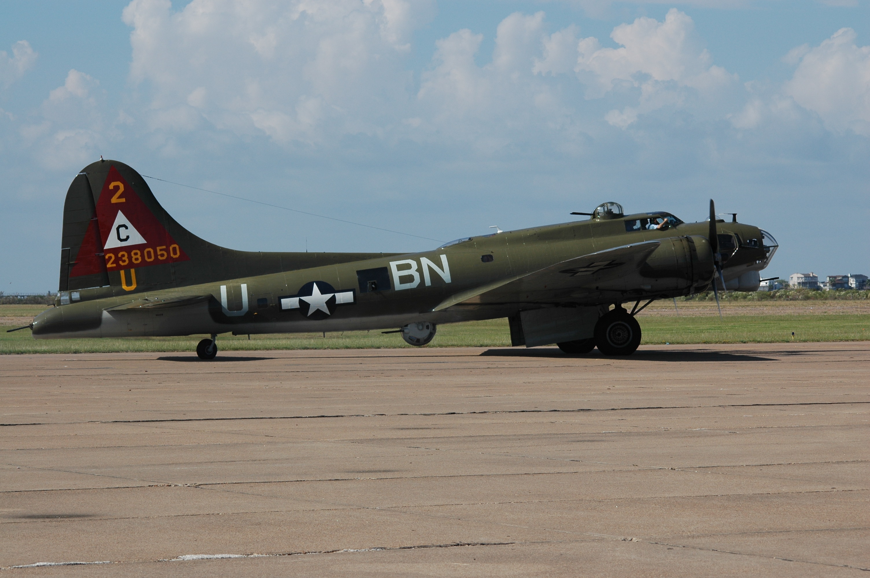 Boeing B-17 Flying Fortress "Thunderbird" #238050 idling before takeoff at the runway outside of the Lone Star Flight Museum in Galveston, Texas